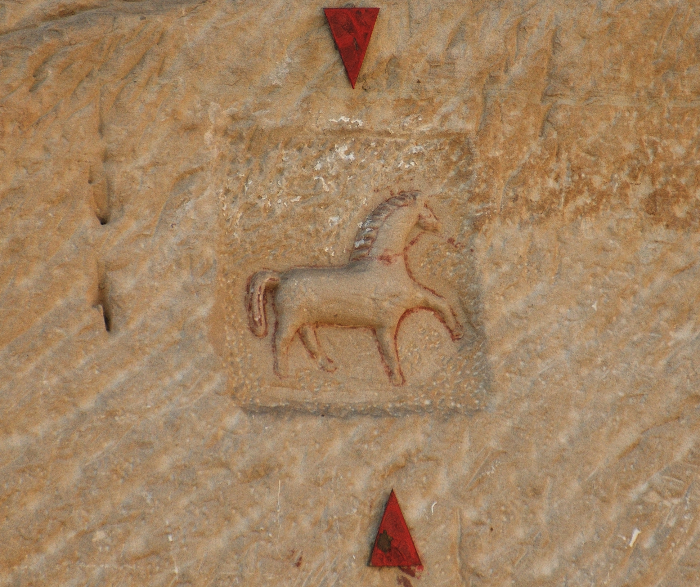 Detail in the quarry of Bad Dürkheim, probably a sign of a unit of the 22nd Roman Legion